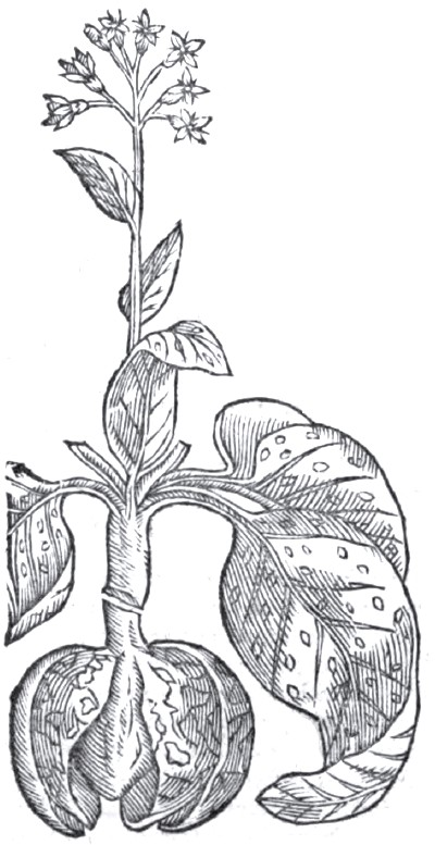 Picture of Pulmonaria officinalis by Marino Bobali for the Giambattista della Porta'sPhytognomonica (1539-1615)